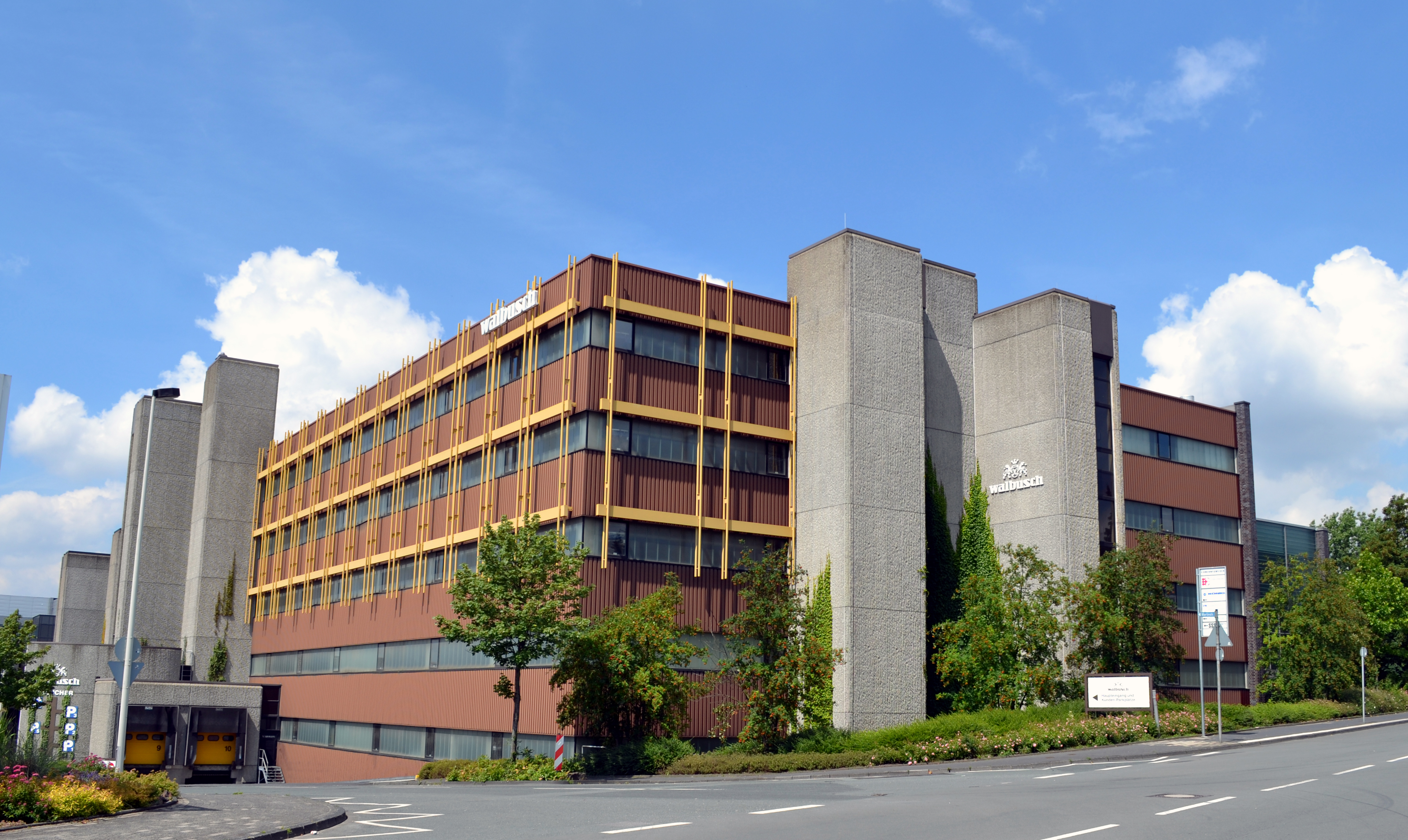 Walbusch-Building in Solingen, Germany.